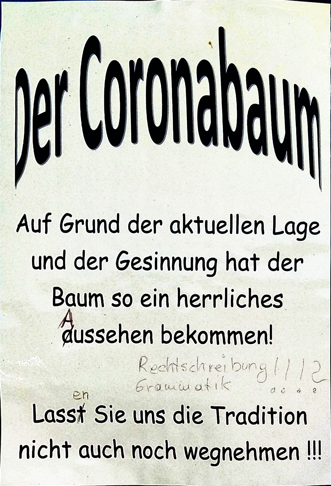 A particularly small and unsightly decorated maypole in Allmersbach am Weinberg. Sign posted to the stem. According to this posted sign, this tree is supposed to be a protest against the restrictions of public life due to the Covid-19 pandemic. It is suggested that the restrictions were imposed due to an unspecified sentiment, and an unspecified group ("Sie") aims to abolish the tradition of maypole erection. The obvious spelling and grammar mistakes were subsequently corrected by hand.